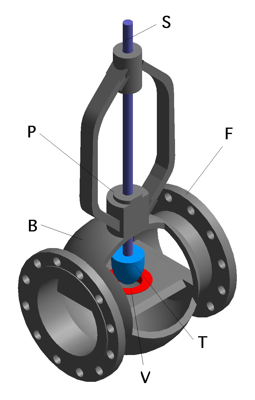 Cross section of globe control valve